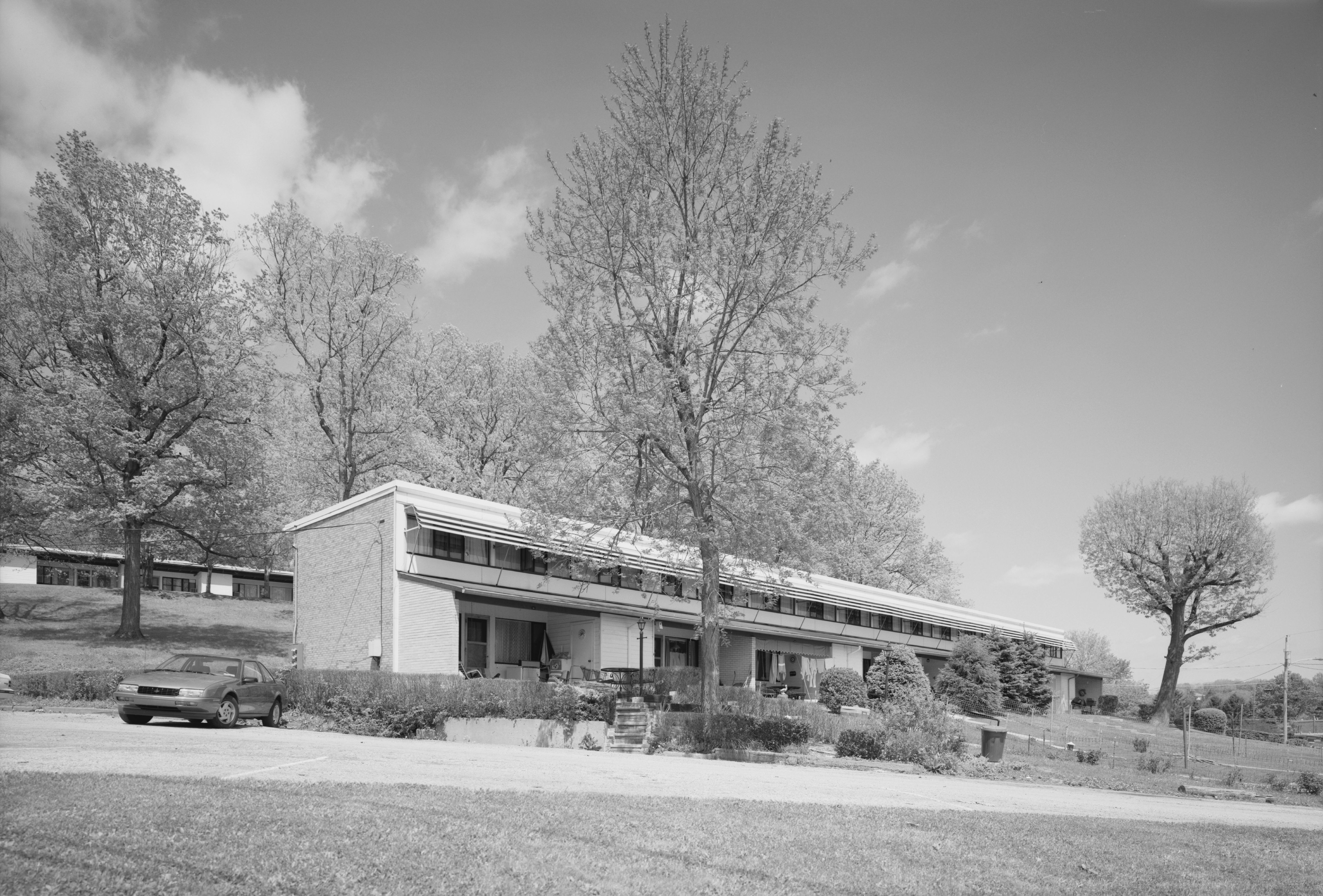 Aluminum City Terrace building 22 in New Kensington, Pennsylvania